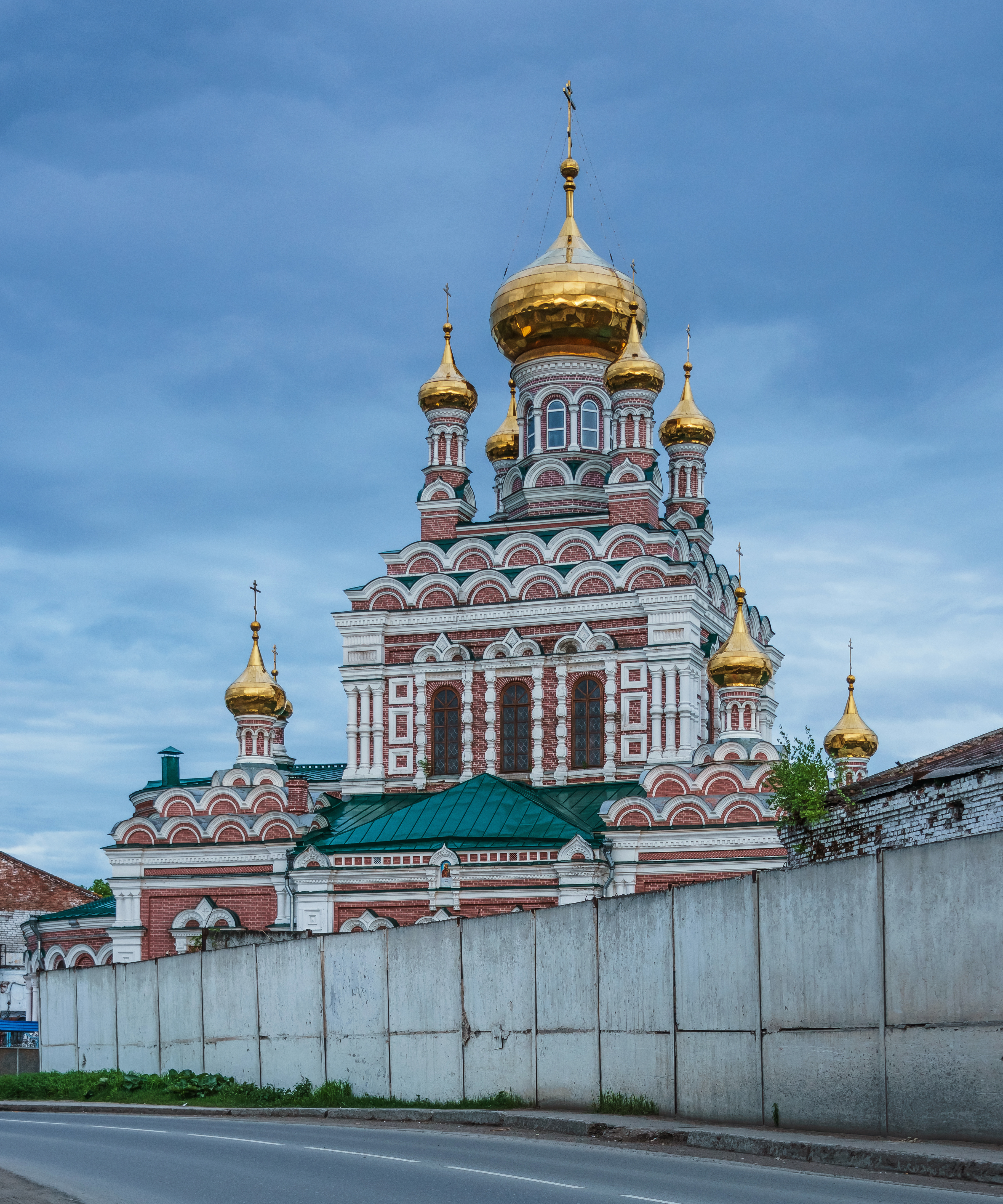 St. Nicholas Church in Kungur, Perm Krai, Russia